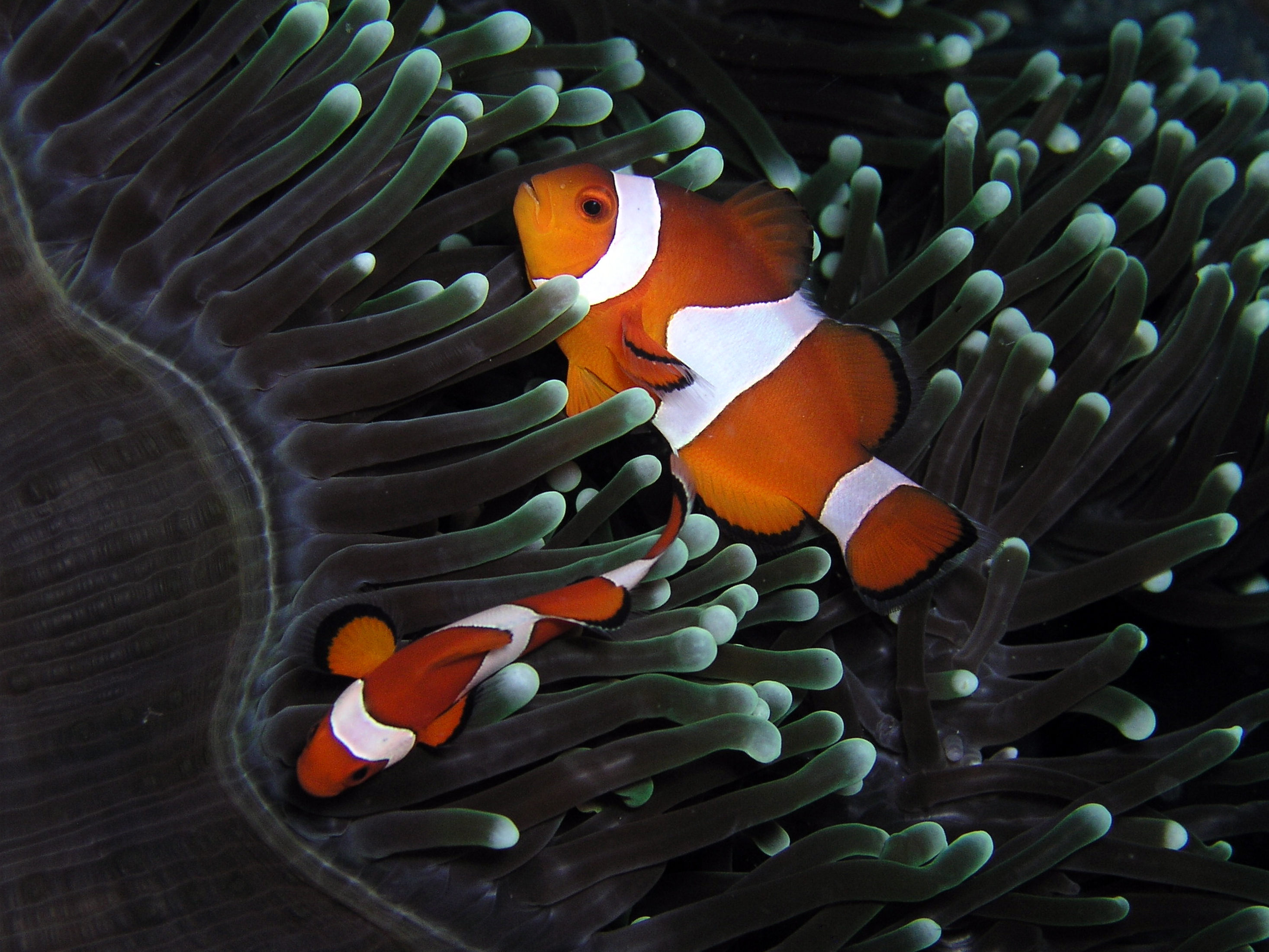 Anemonefish. Amphiprion ocellaris